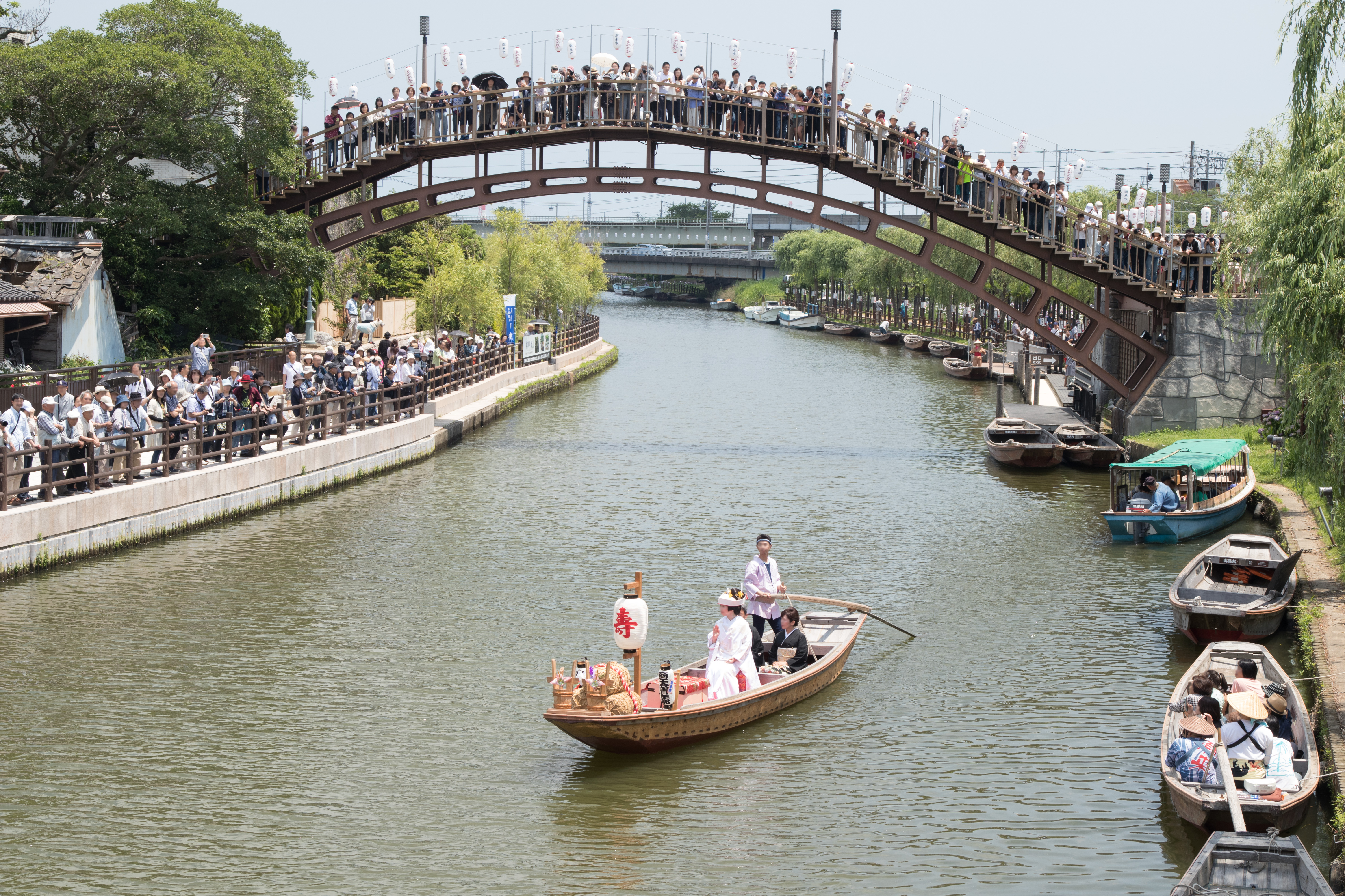 The Yomeiri-bune(嫁入り舟 Wedding boat) at Suigo-Itako Ayame Festival, Itako City, Ibaraki Pref., Japan